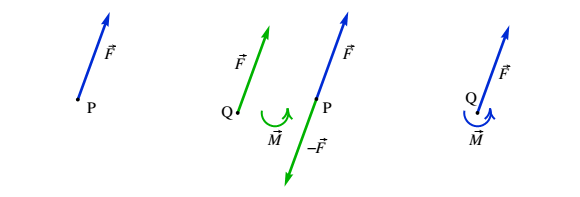 Procedimento para deslocar uma força de um ponto P para outro ponto Q